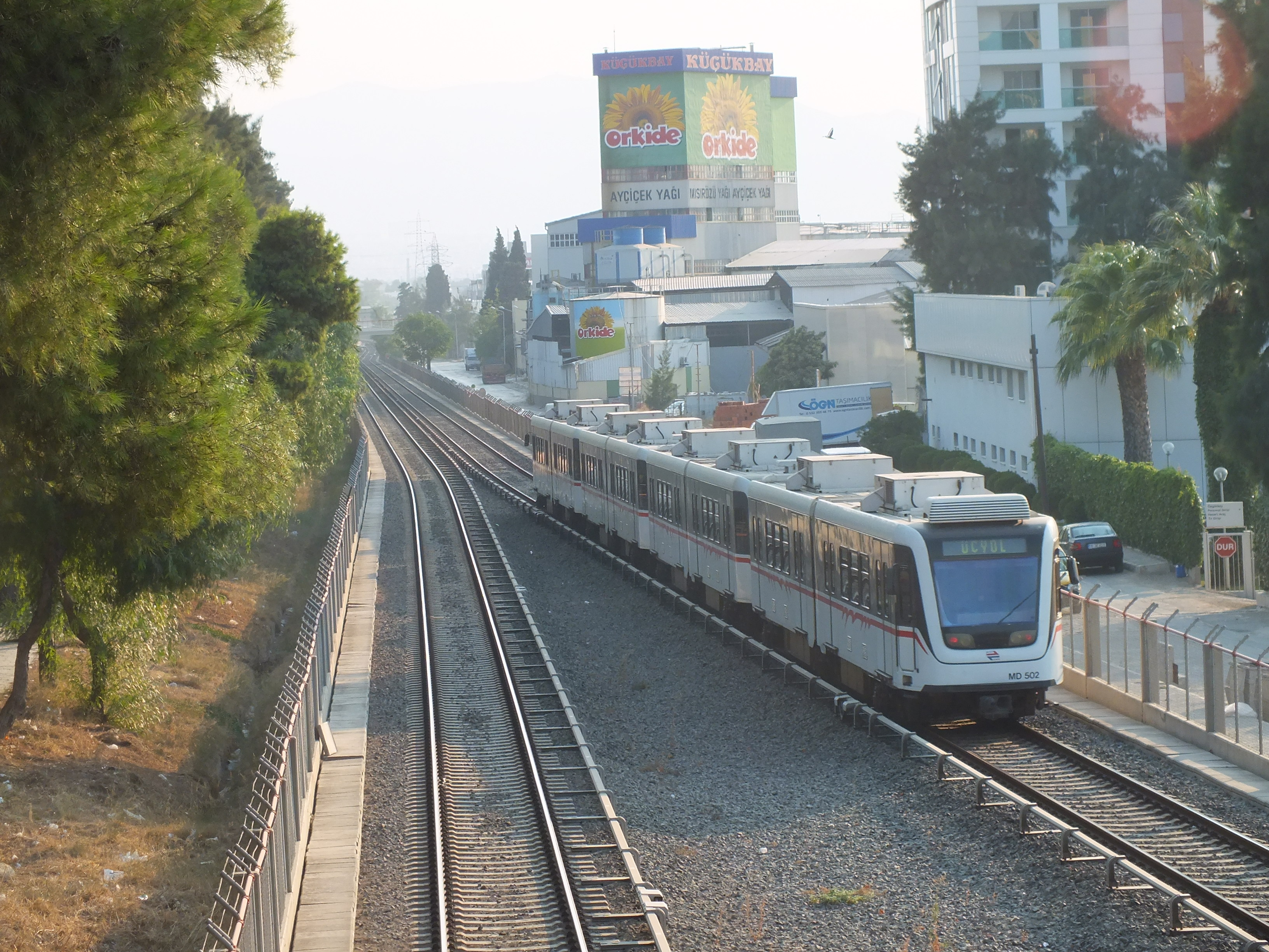 An Ücyol-bound train after departing Bölge station.